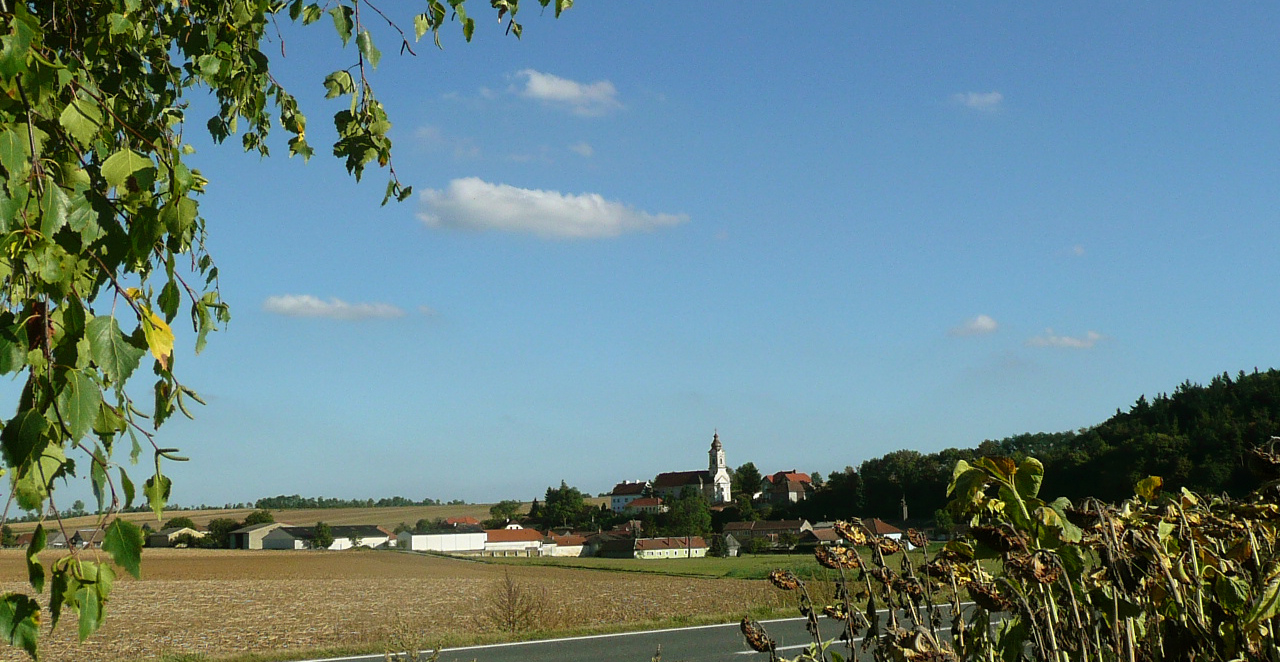 Zemling, a village in Hohenwarth-Mühlbach am Manhartsberg, Weinviertel, Lower Austria